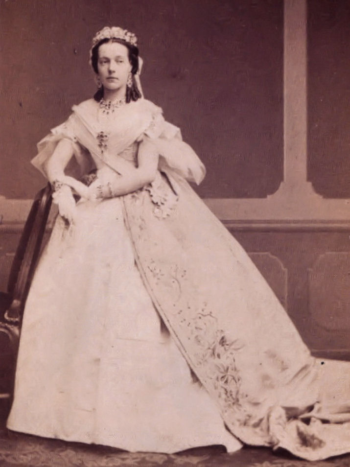 Marie Henriette, Queen of the Belgians (1836-1902), when The Duchess of Brabant